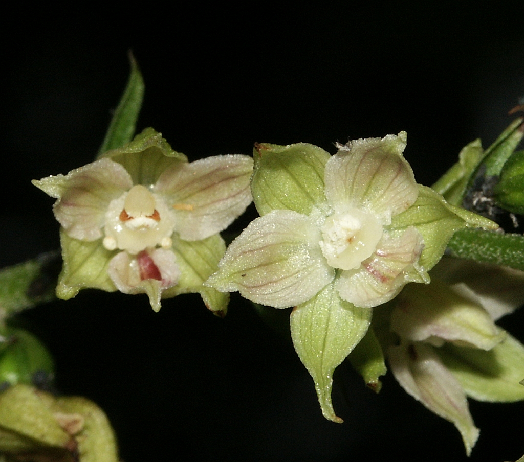 Epipactis muelleri "petaloid labellum", Hohenlohe, Germany